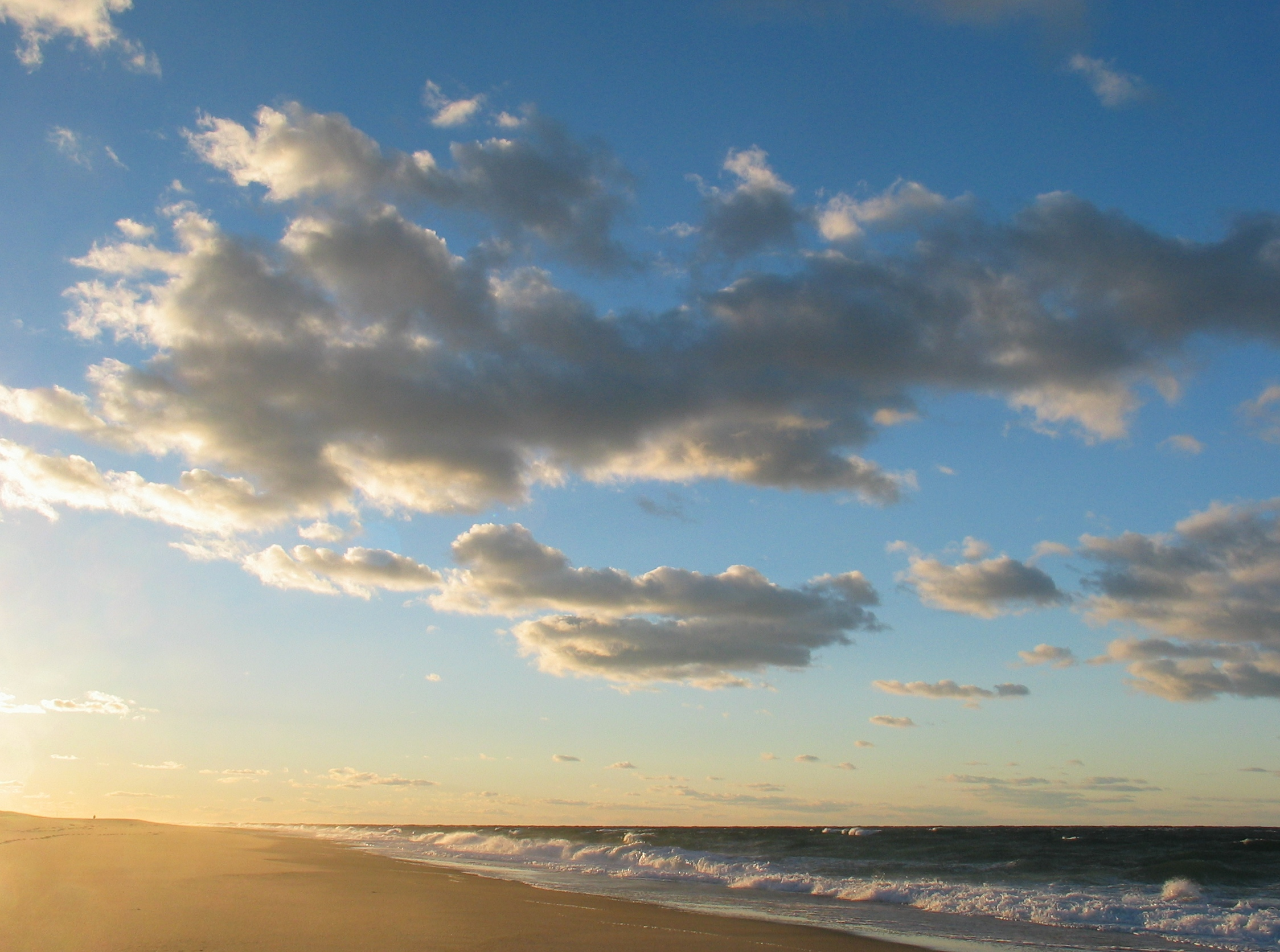 Cape Cod beach at sunset, Race Point Beach